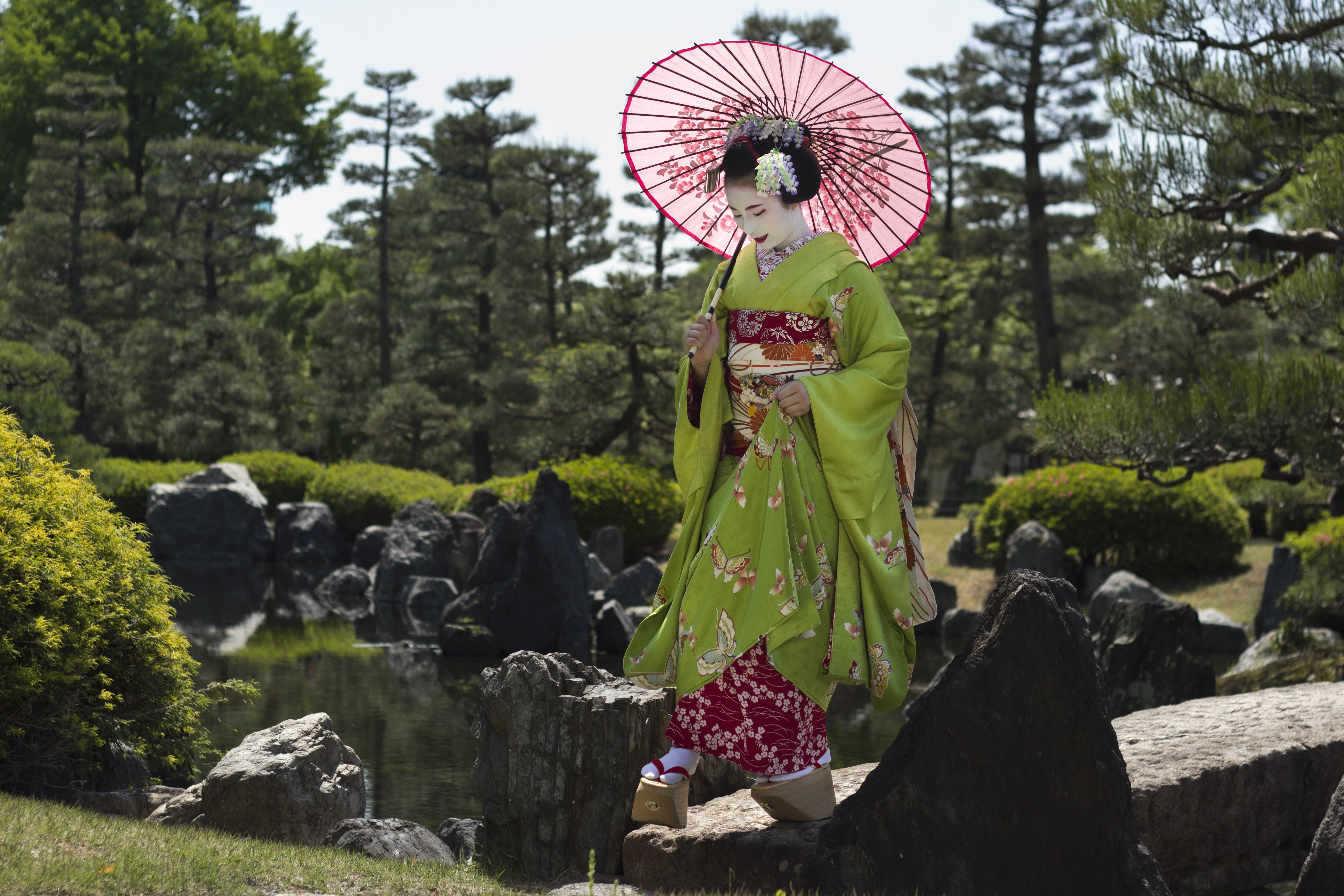 Geisha apprentice (maiko) Fukunae (ふく苗) of the Miyagawa-cho ochaya Shigemori. The high oboko shoes, the red inner sleeve, the length of the kimono (forcing Fukunae to lift it up with her hand), her obi trailing behind her, the kimono's color and Fukunae's hairstyle are all classical giveaways that she is not yet a fully trained geisha (or geiko, as they are called in Kyoto).